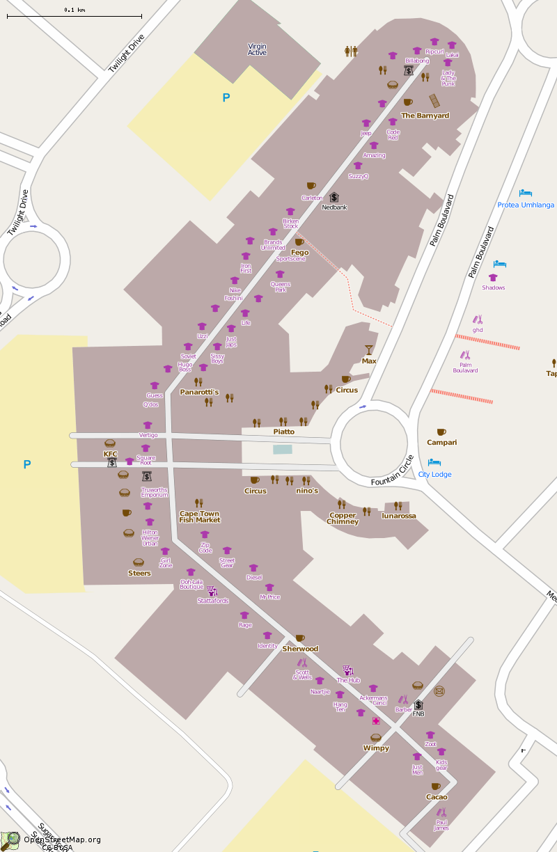 Map of Gateway Mall, Umhlanga, Durban, South Africa